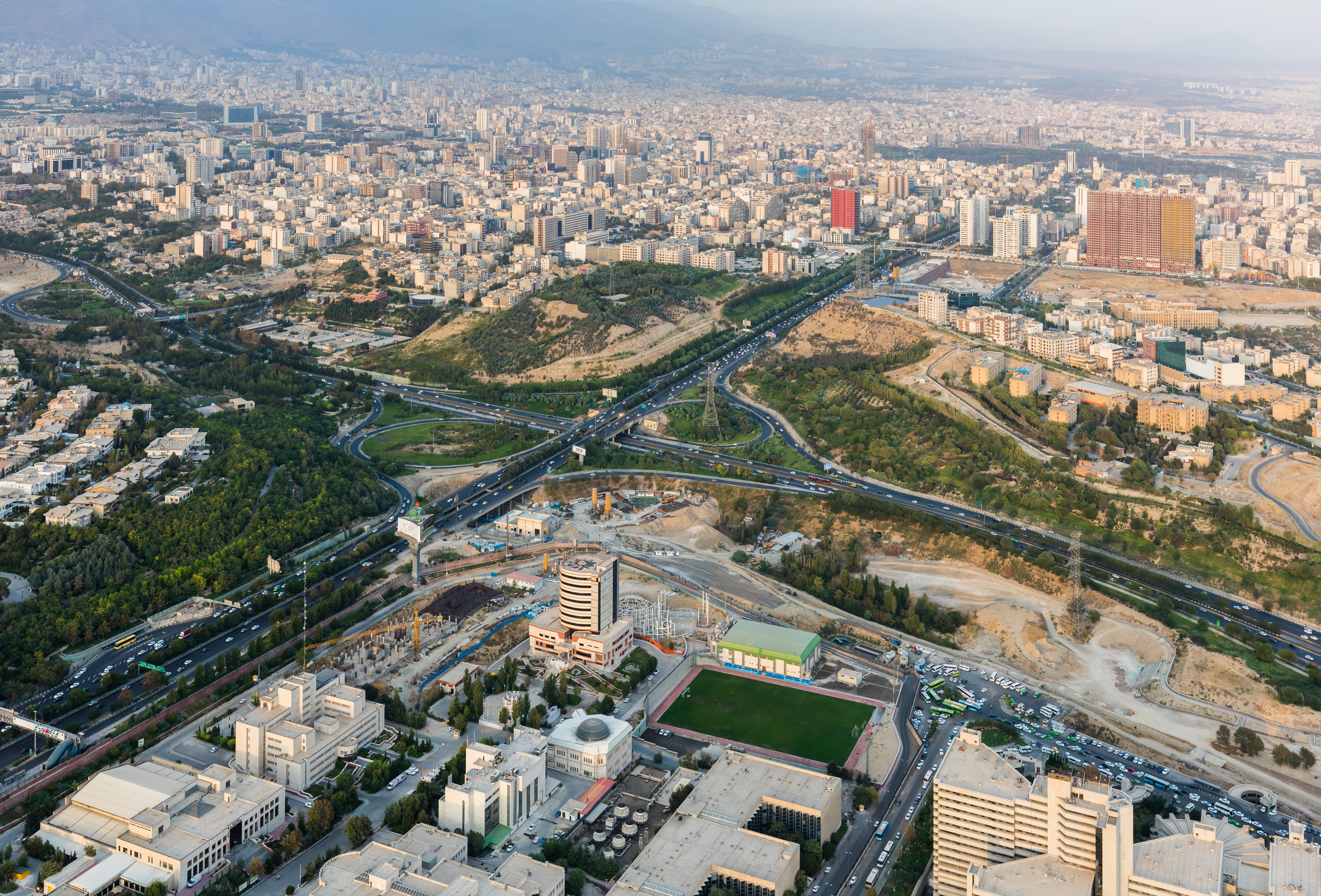 View of Tehran from Milad Tower, Iran